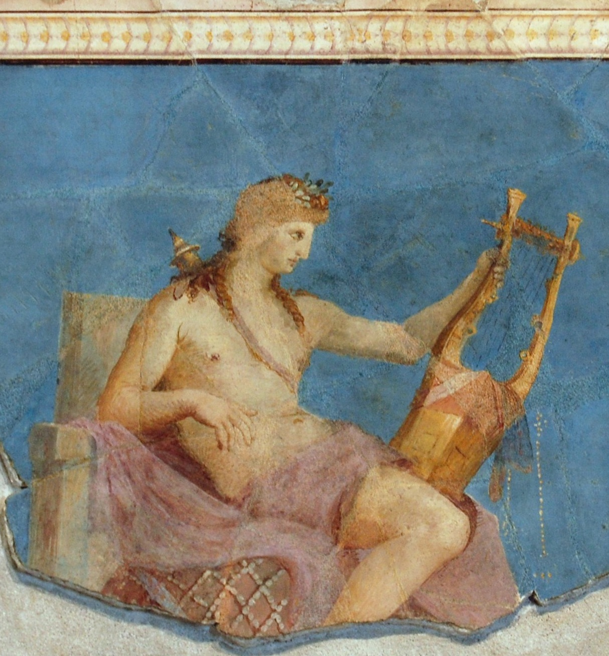 Apollo Kitharoidos. Painted plaster, Roman artwork from the Augustan period. From the Scalae Caci on the Palatine Hill. Antiquarium of the Palatine, Inv. 379982.